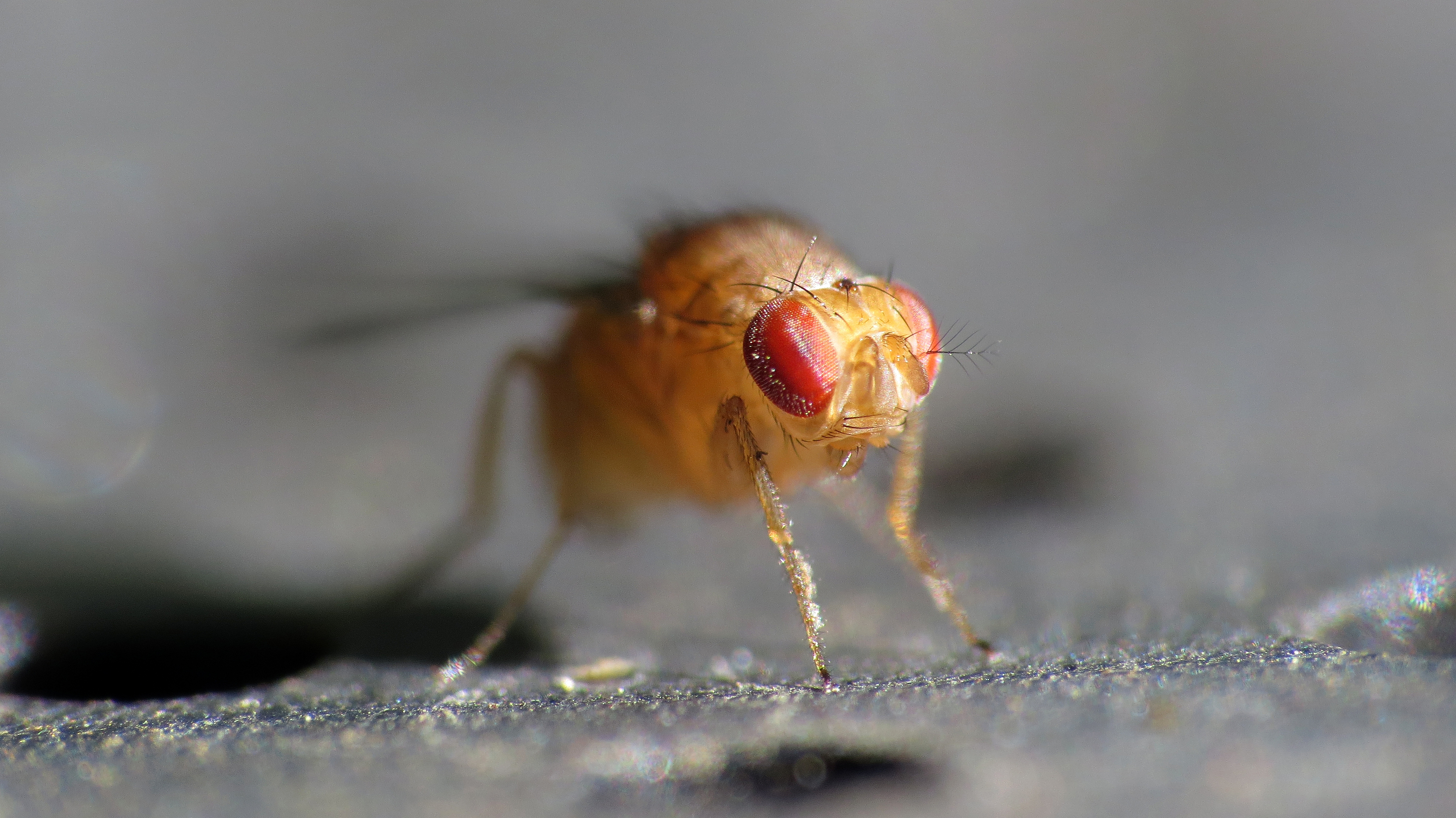 Vinegar fly, male Drosophila immigrans, family Drosophilidae, on compost. Como, NSW, Australia, July 2014.